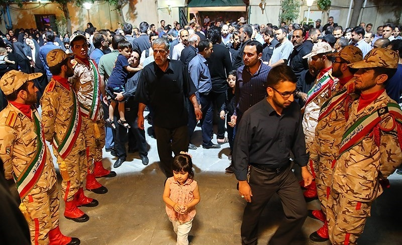 Farewell ceremony with victims of 2017 Tehran attacks